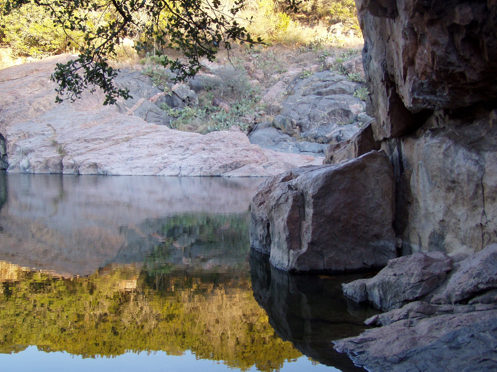 Description: Devil's Waterhole at Inks Lake State Park Source: Photo taken by Benjamin Bruce Date: 2006-01-02